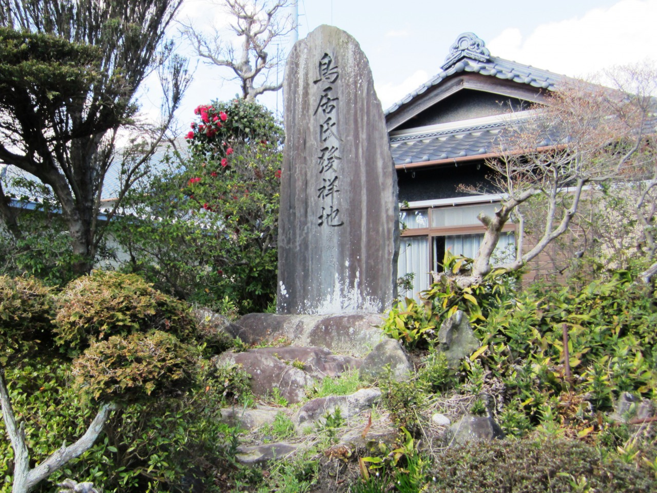 The home of the Torii clan in Okazaki, Aichi.